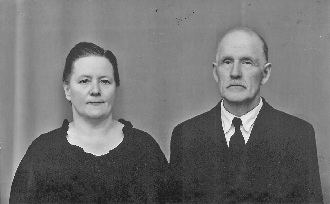 Photograph of the Finnish politician Anna Haverinen (1884–1959) with his husband Juho.